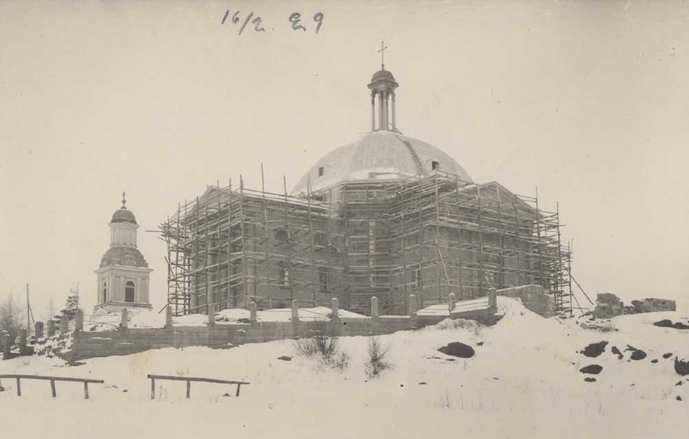 Jämsä church under construction in Finland in 1929